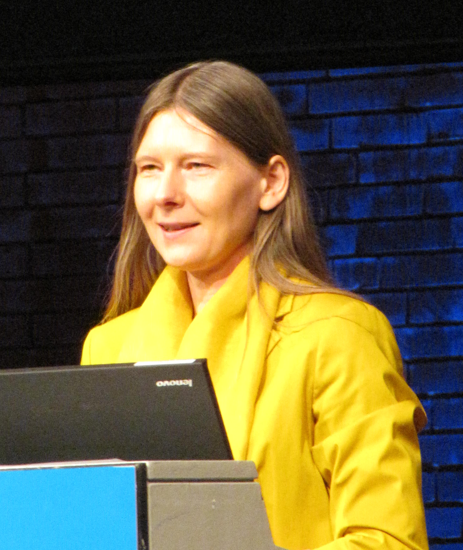 Kirchentag Hamburg 2013: Ulinka Rublack